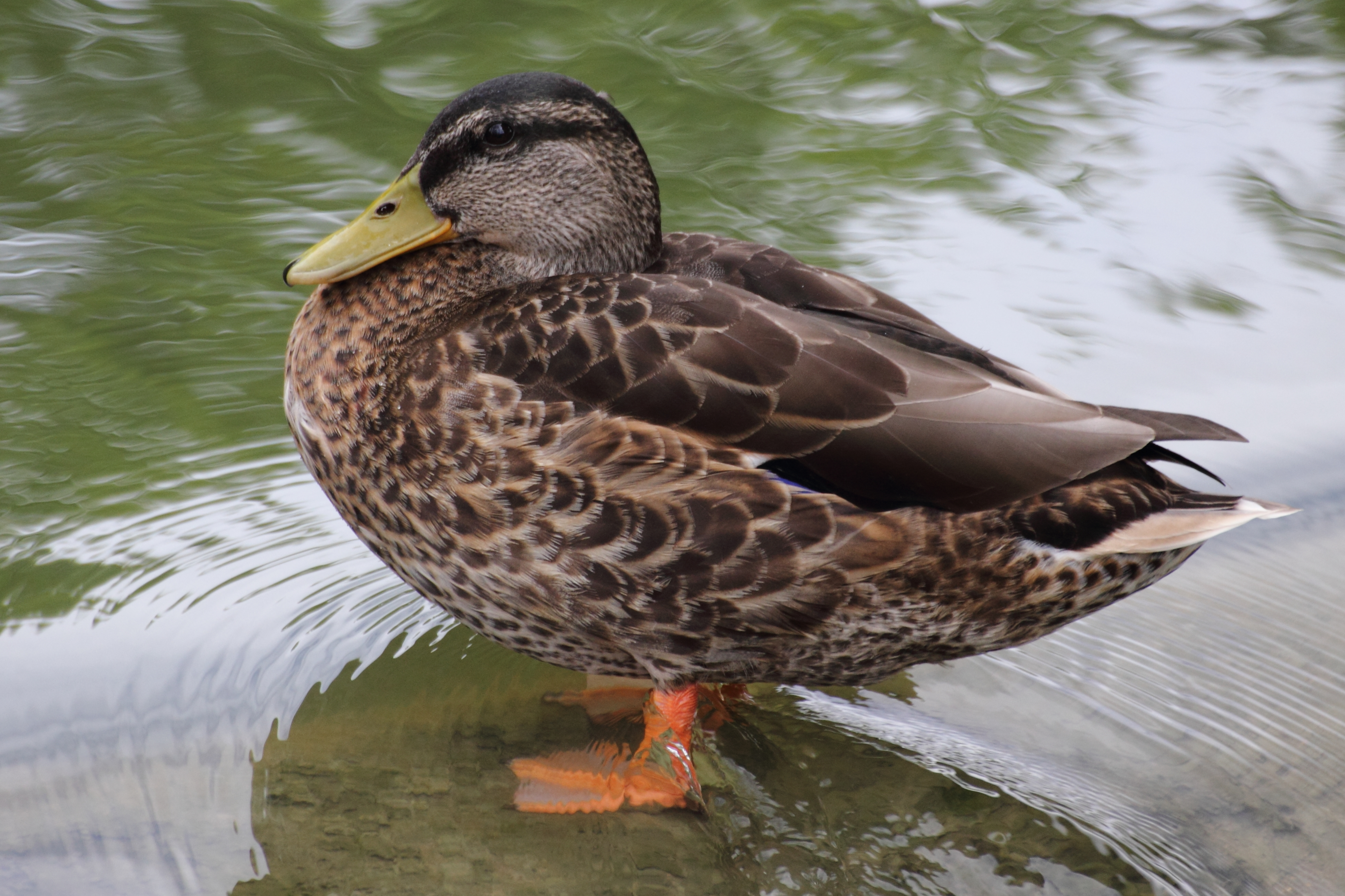 Male eclipse mallard (Anas platyrhynchos) not female!